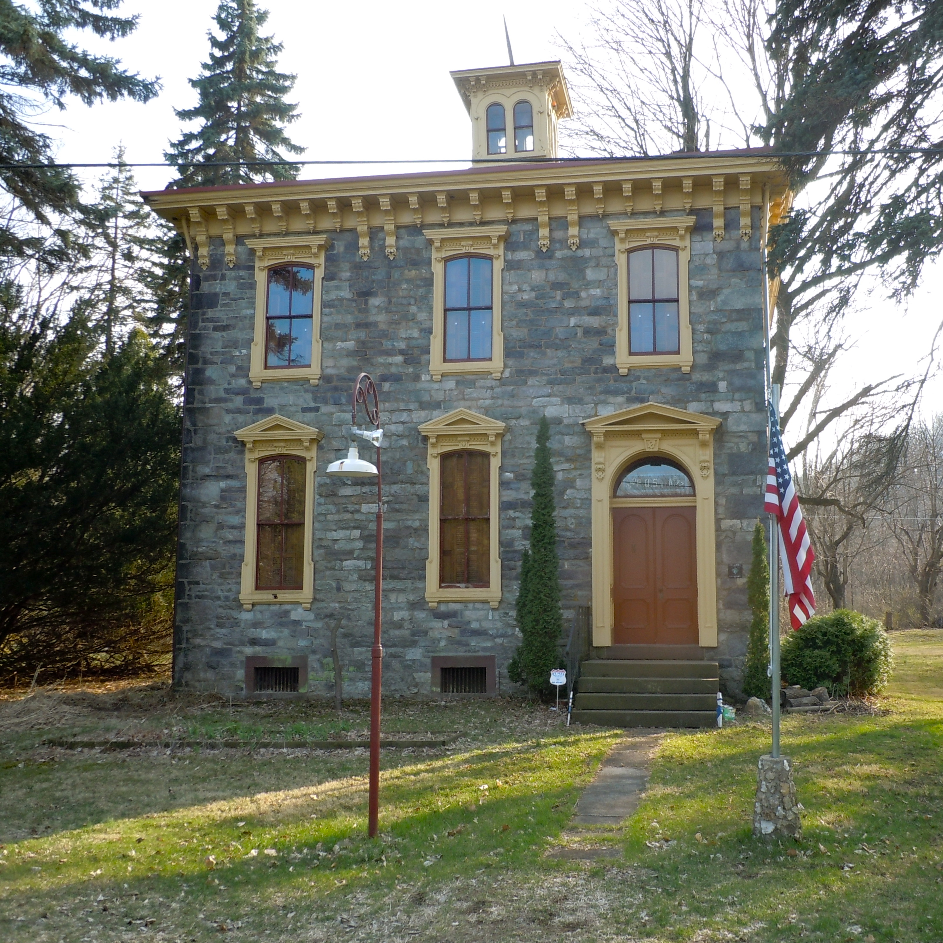 Building in the Robesonia Furnace Historic District on the NRHP since September 6, 1991. HD bordered by Furnace, South Church and Freeman Streets and Mountain and East Meadow Avenues, in Robesonia, Berks County, Pennsylvania. This particular building is likely the office, which stands across the street from the Ironmaster's House, near the fire station. It has the mysterious stained glass in the transom with the writing "POS of A" (Patriotic Order Sons of America.)